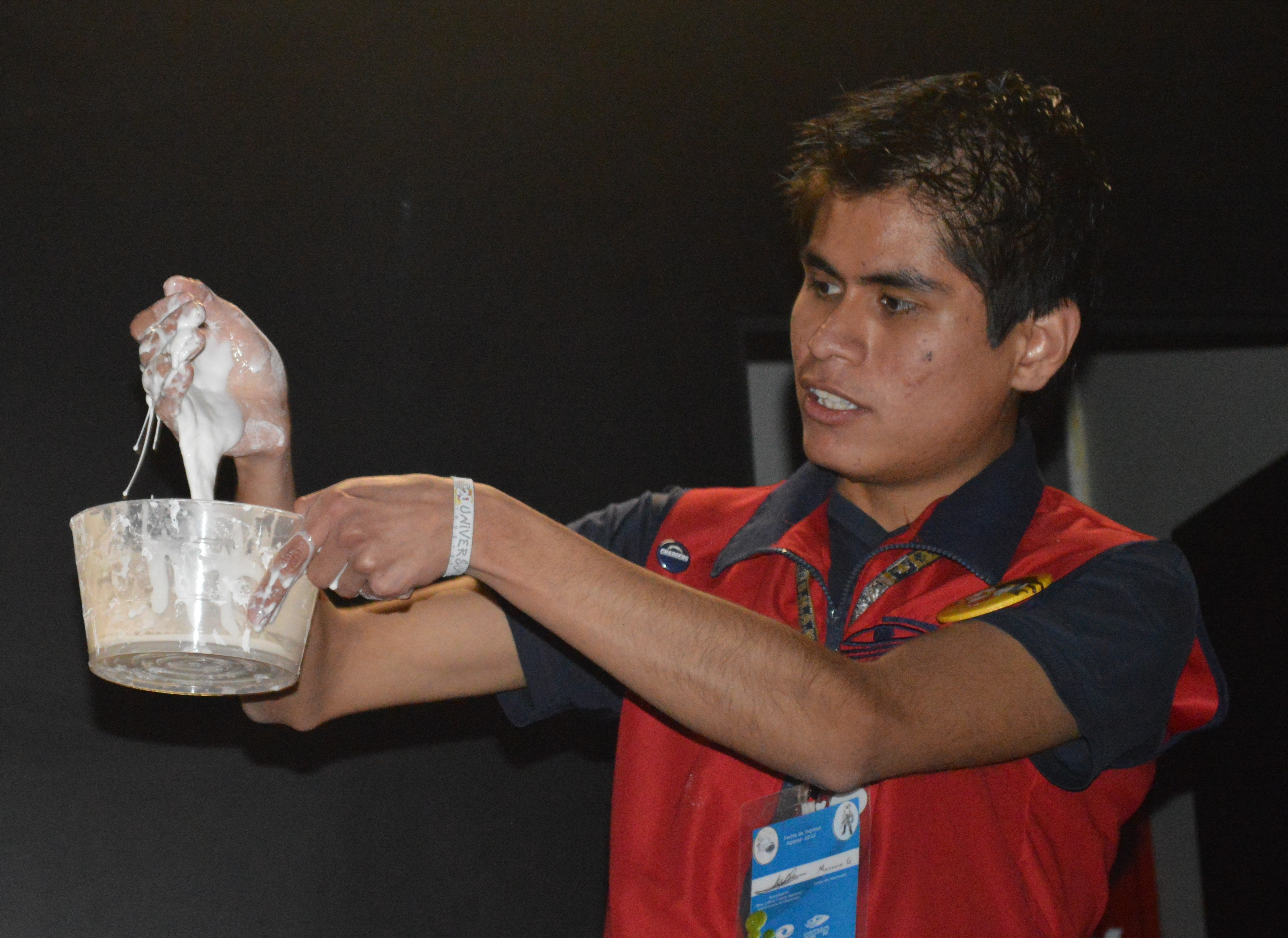 Chemistry demonstration with a non-Newtonian fluid at Universum in Ciudad Universitaria in Mexico City